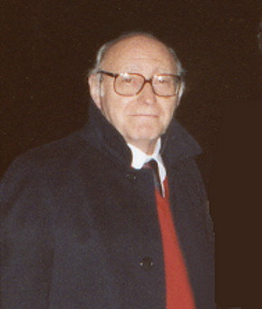 Professor Mario Costa at Artmedia VIII (Paris, 2003)